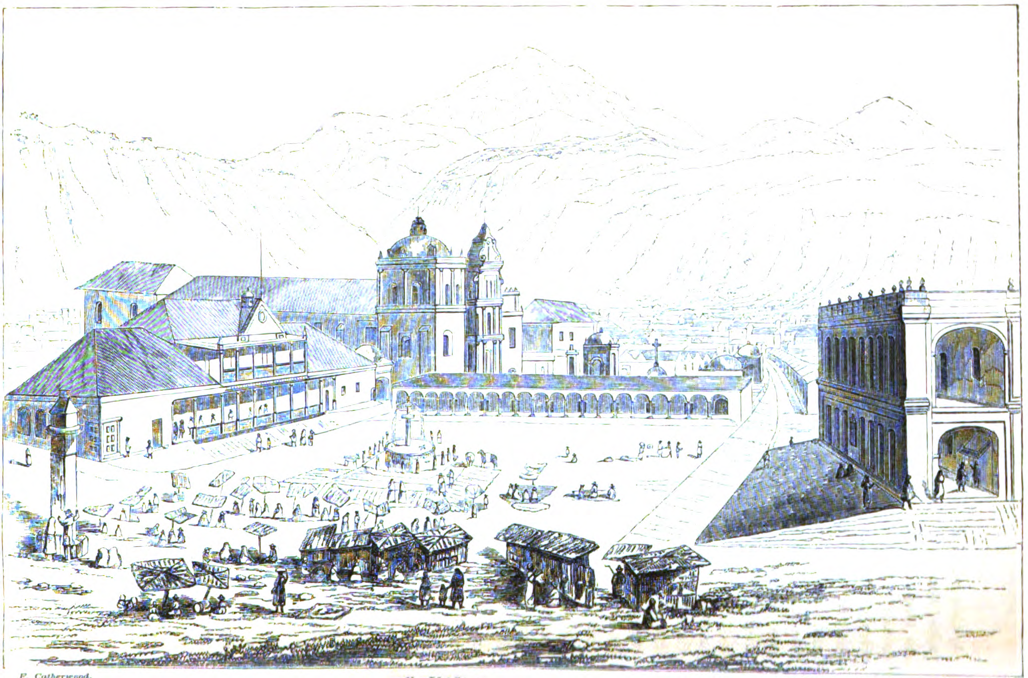 Sketch of the central park of Quetzaltenango, Guatemala, by Frederick Catherwood in 1840; published in Incidents of Travel in Central America, Chiapas and Yucatán by John Lloyd Stephens. 1854 edition.